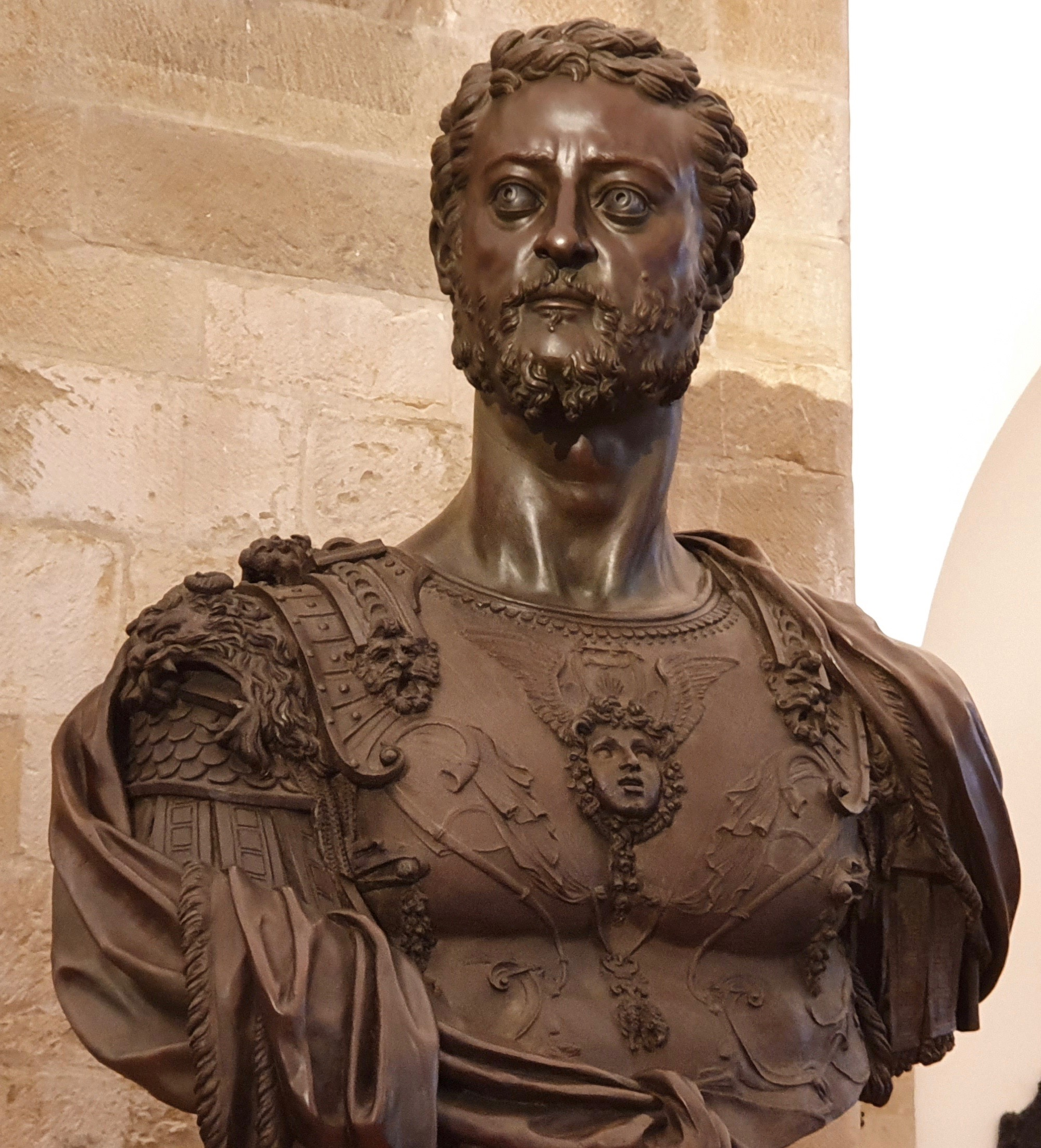 Bust of Cosimo I by Benvenuto Cellini